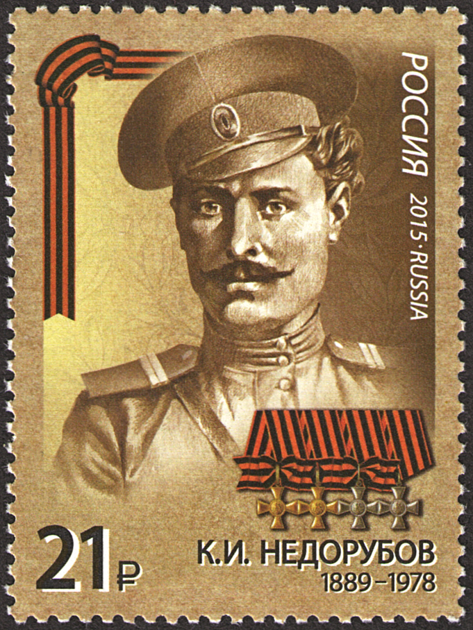 The History of World War I (the ongoing series, issue II). Heroes of World War I. Konstantin Nedorubov (1889—1978). The stamp of Russia, 21.00 ₽, 03 August 2015, PTC Marka Catalogue No. 1978, Michel No. 2191. Coated paper. Offset printing. Perforation: comb 11½:12. Size of the stamp: 37×50 mm. Print run: 385,000.